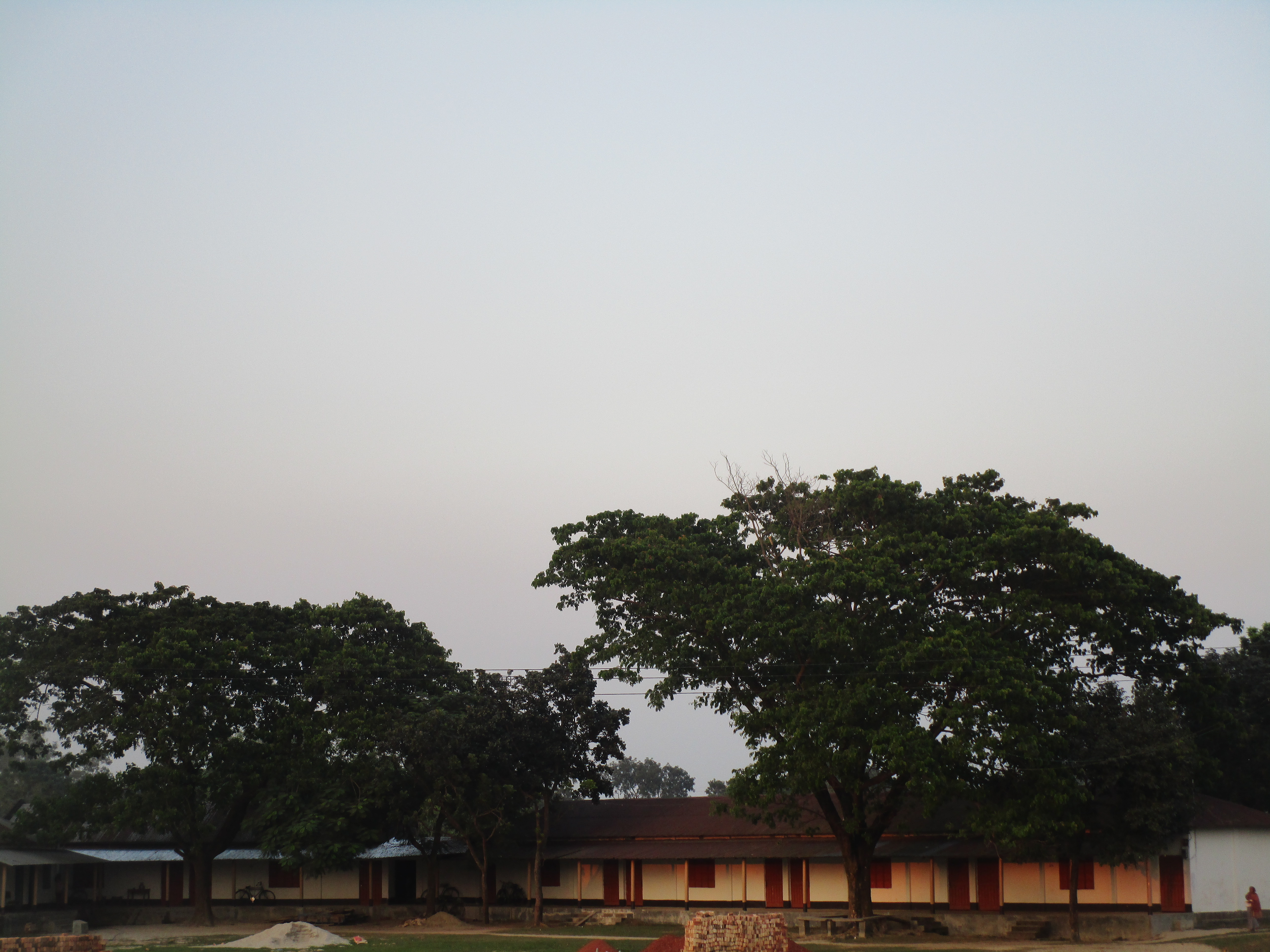 The building of Parbatipur Womens College.